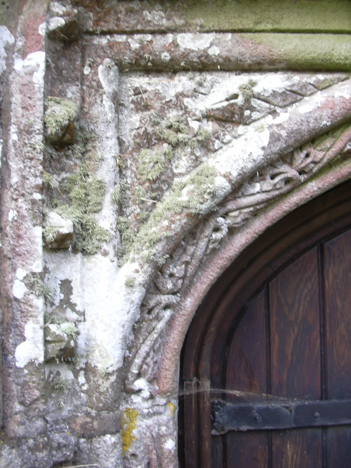 South door of Mabe Church